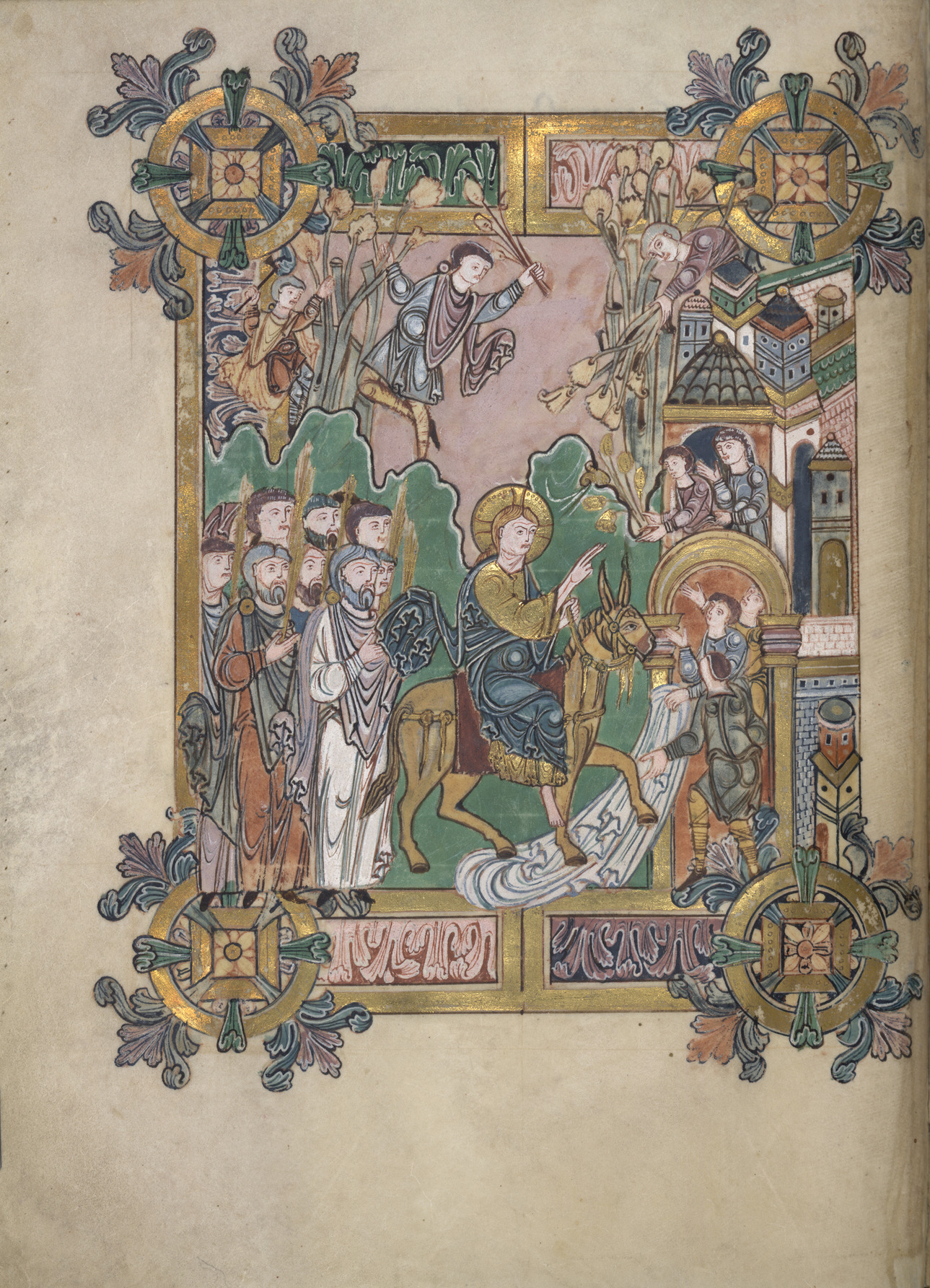 The Entry into Jerusalem [Whole folio] Preface to the blessing for Palm Sunday. Christ is astride a donkey, and followed by a group of people with golden palm branches. Two youths at the city gate spread mantles under the donkey's feet, and above them other figures lean out from the city walls or are up a tree throwing flowers. The scene is surrounded by frame of 'Winchester' acanthus, with round bosses at each corner